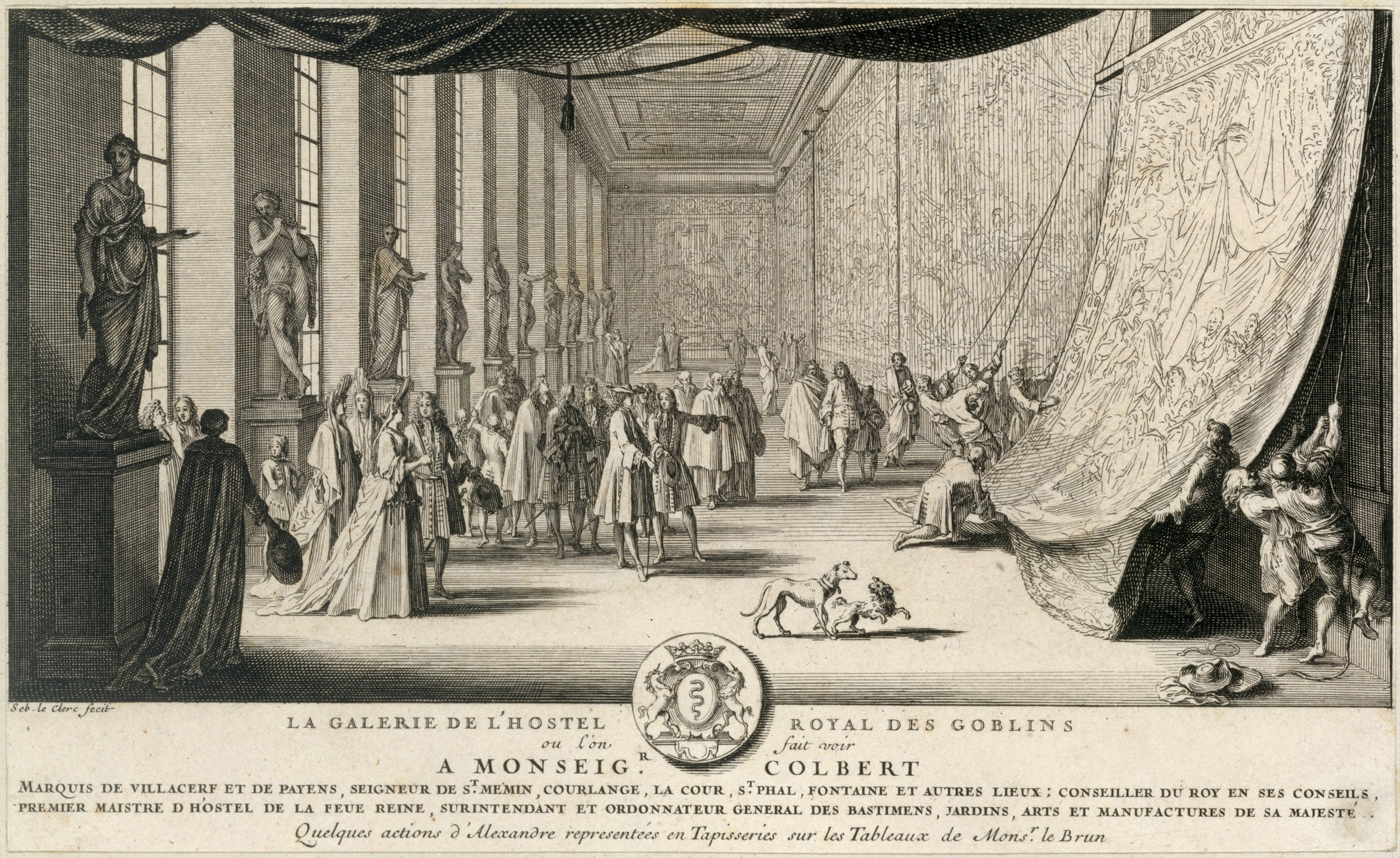 Gallery inside the Hôtel des Gobelins, adorned with statues at left and tapestries at right; at centre, Edouard Colbert, surrounded by courtiers, is being shown the tapestries, designed by Charles Le Brun, representing the story of Alexander the Great; Colbert's coat of arms in lower margin.